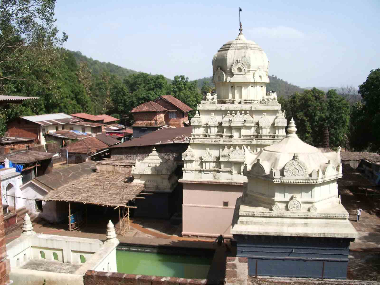 Parshuram Temple, village - Parshuram, taluka - Chiplun, district - Ratnagiri.